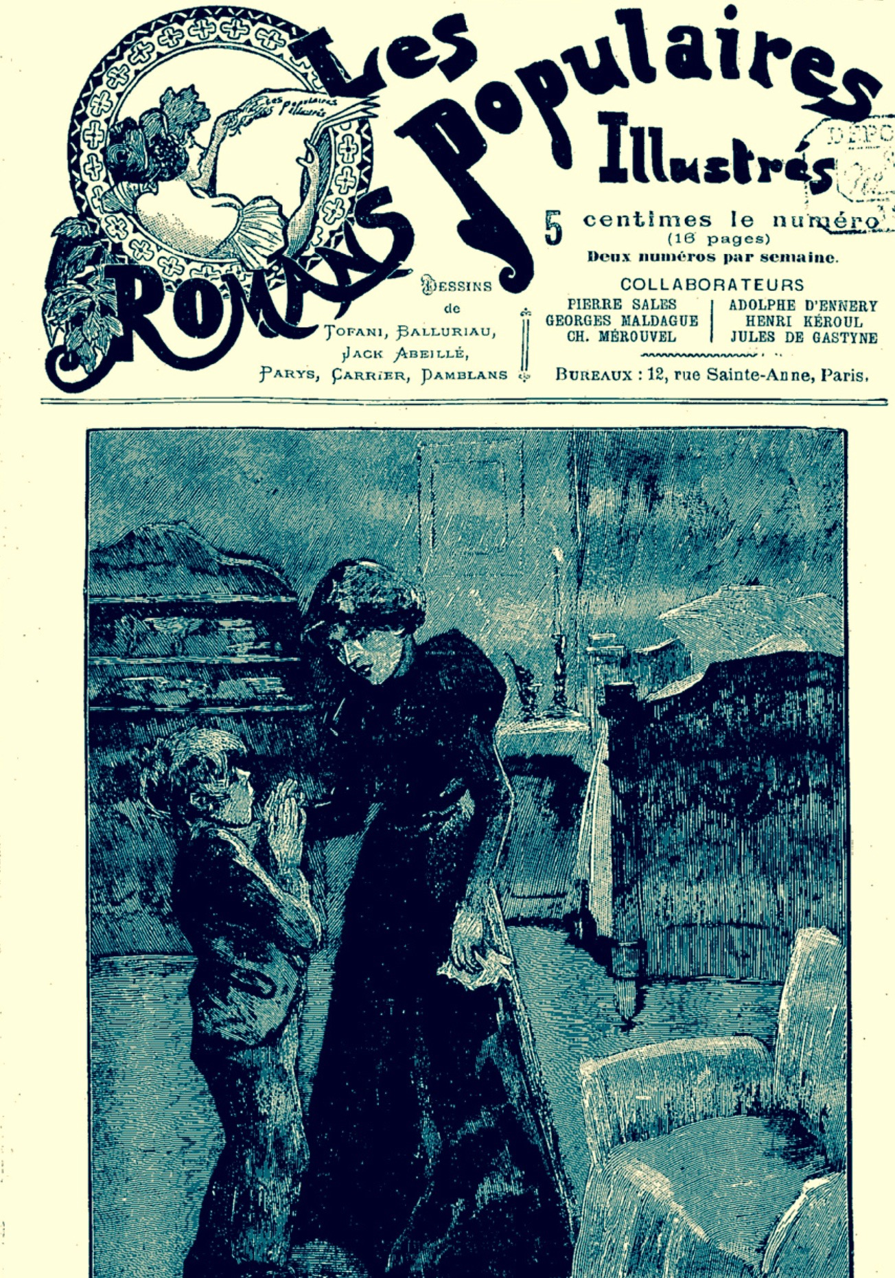 JDD55